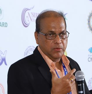 Prof. B. Madhusoodhana Kurup, in an international Conference.